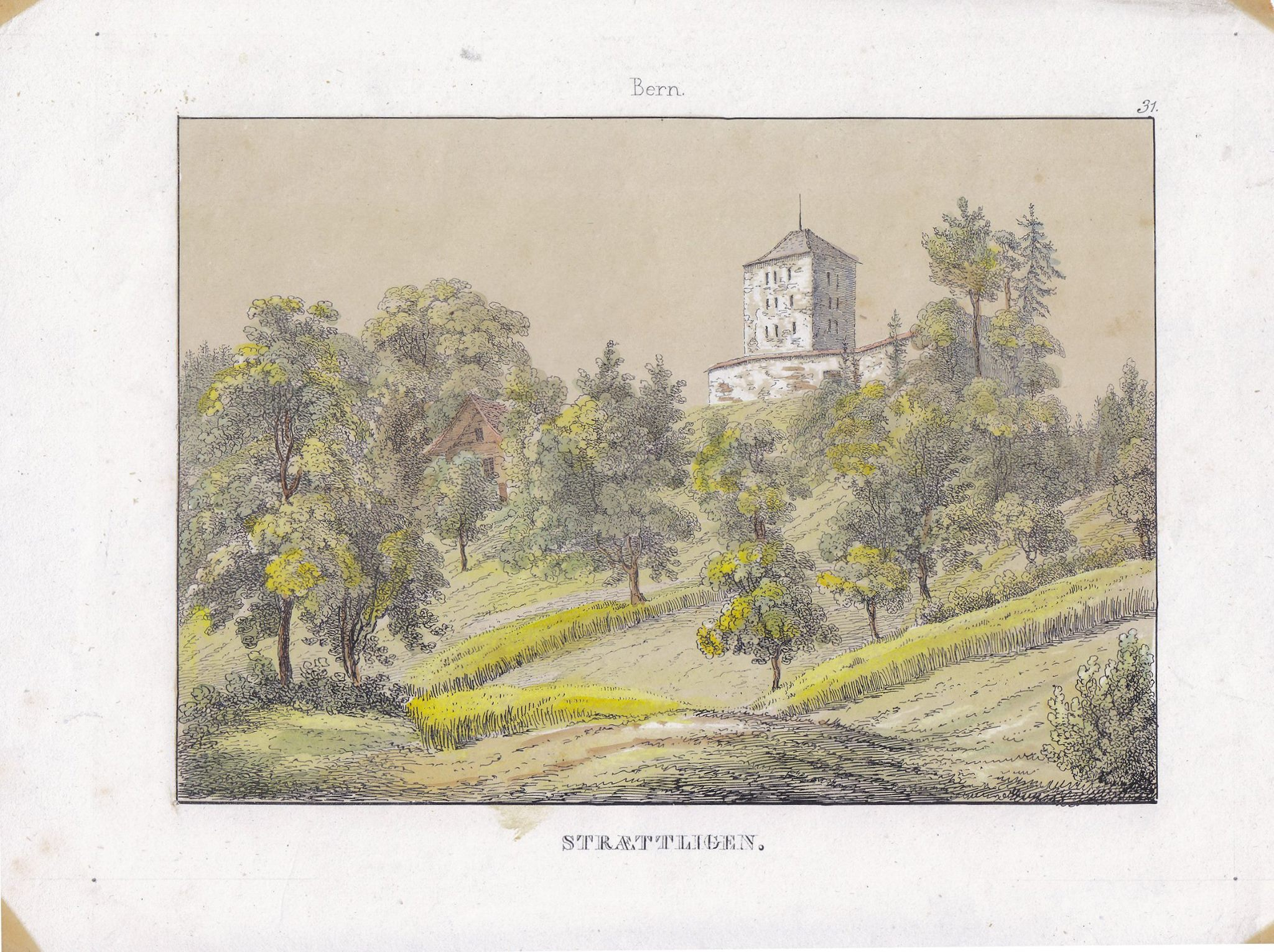 View of the Strättligburg